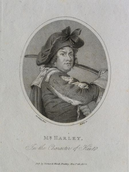 Portrait of George Davies Harley (died 1811), English actor, in character as Kent in King Lear.